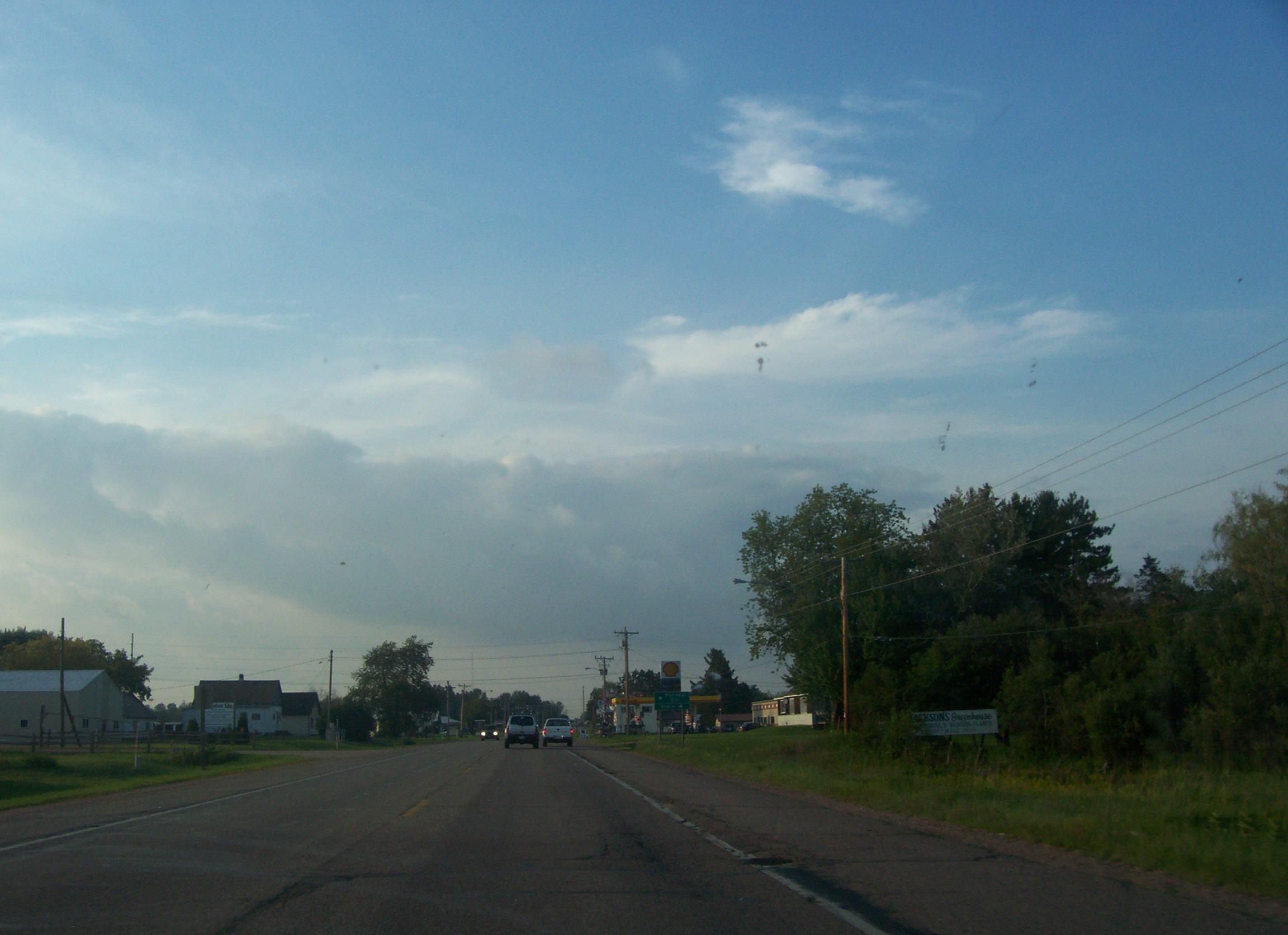 Birnamwood, Wisconsin, USA. Taken while travelly north on U.S. Route 45.